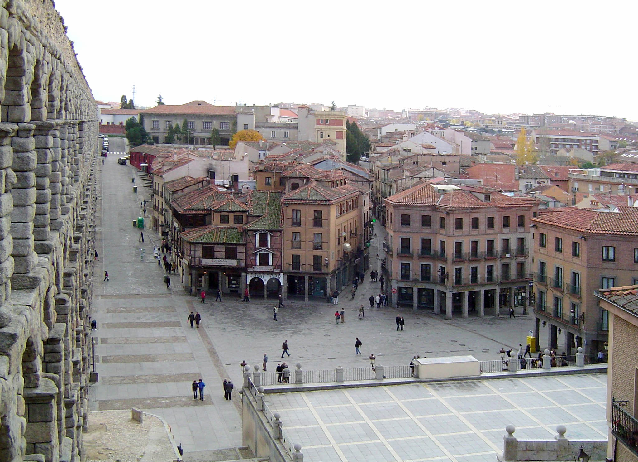 A photo from the side of the aqueduct and the plaza in Segovia, Spain.